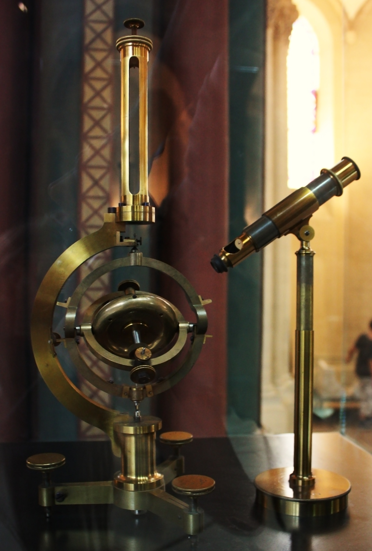 Gyroscope invented by Léon Foucault, and built by Dumoulin-Froment, 1852. Photo taken at the National Conservatory of Arts and Crafts museum, Paris.